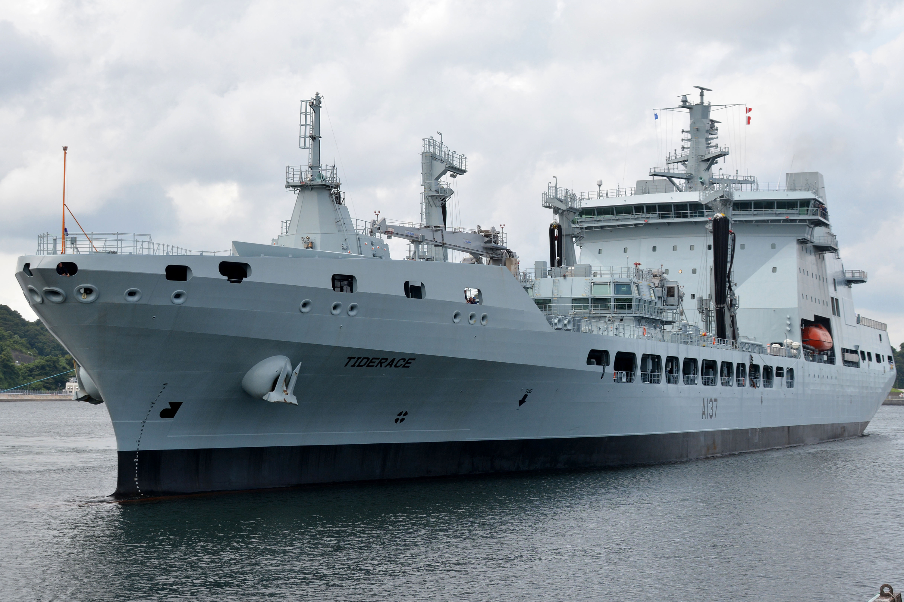 The British Tide-class Royal Fleet Auxiliary fleet tanker RFA Tiderace (A137) arrives at the U.S. Navy Fleet Activities Yokosuka, Japan, for a scheduled port visit on 7 August 2017.